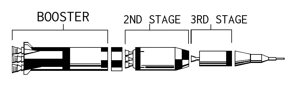 line art drawing